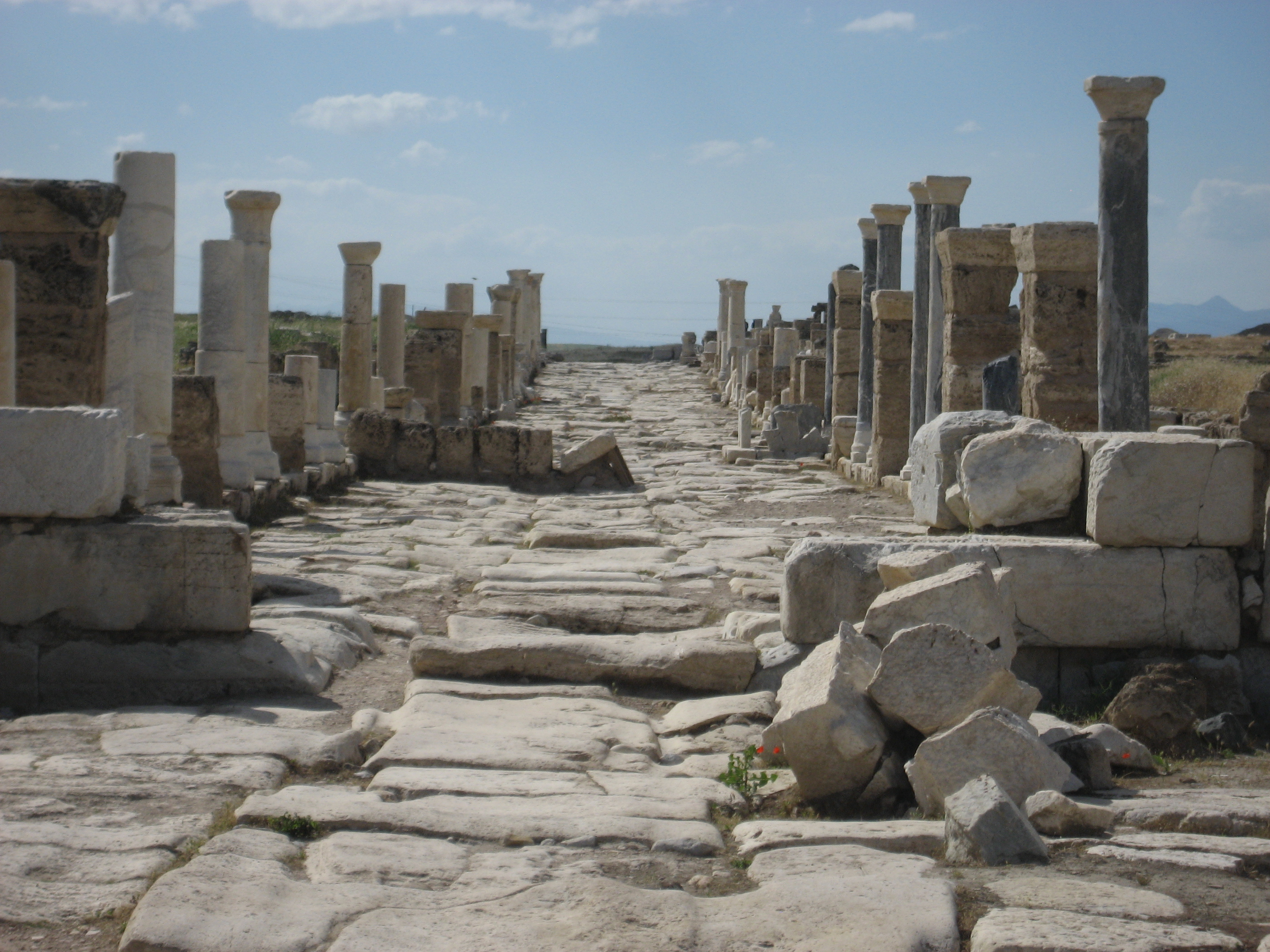 street